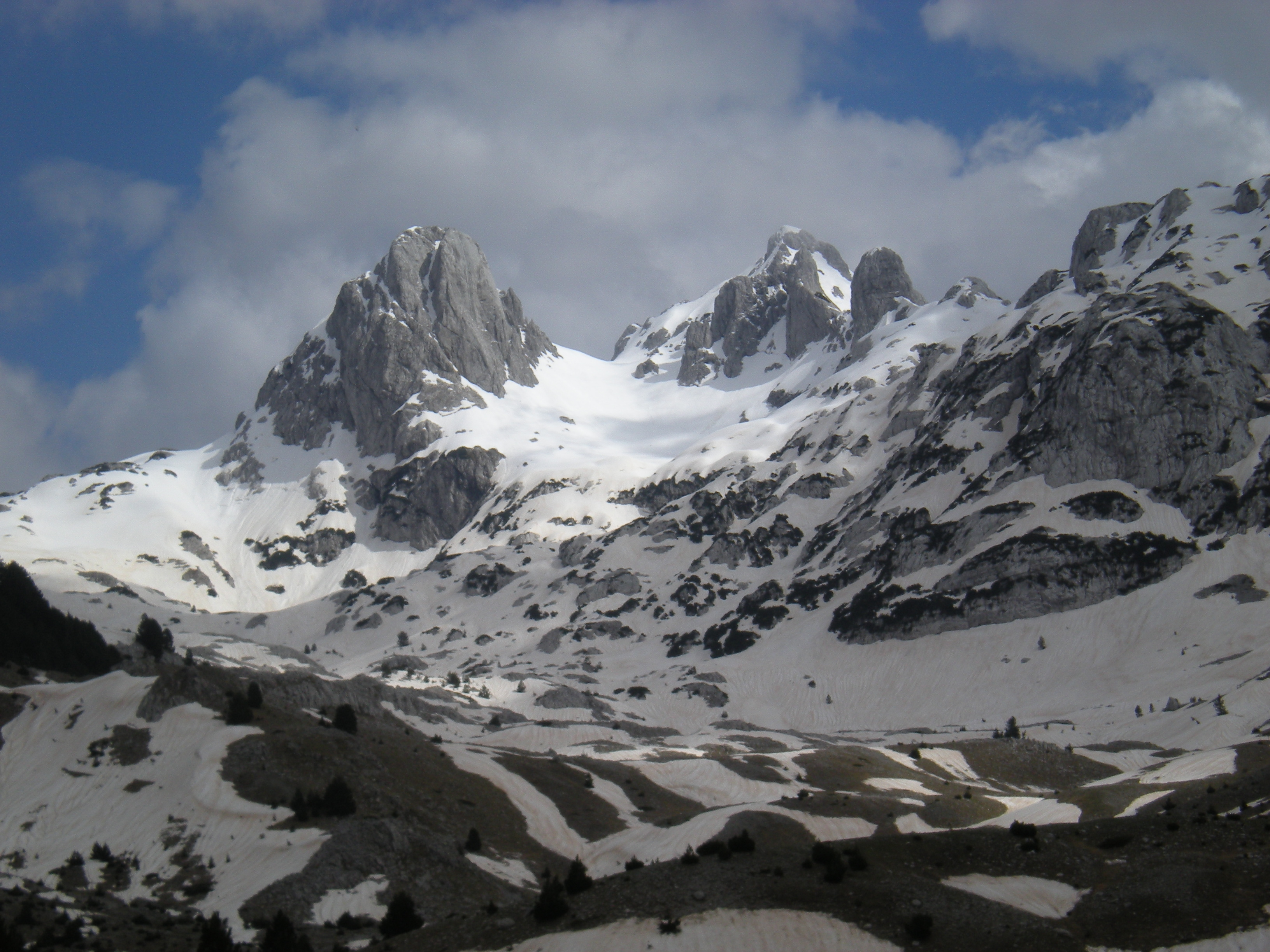 Prenj: Otis and Zelena Glava in early spring